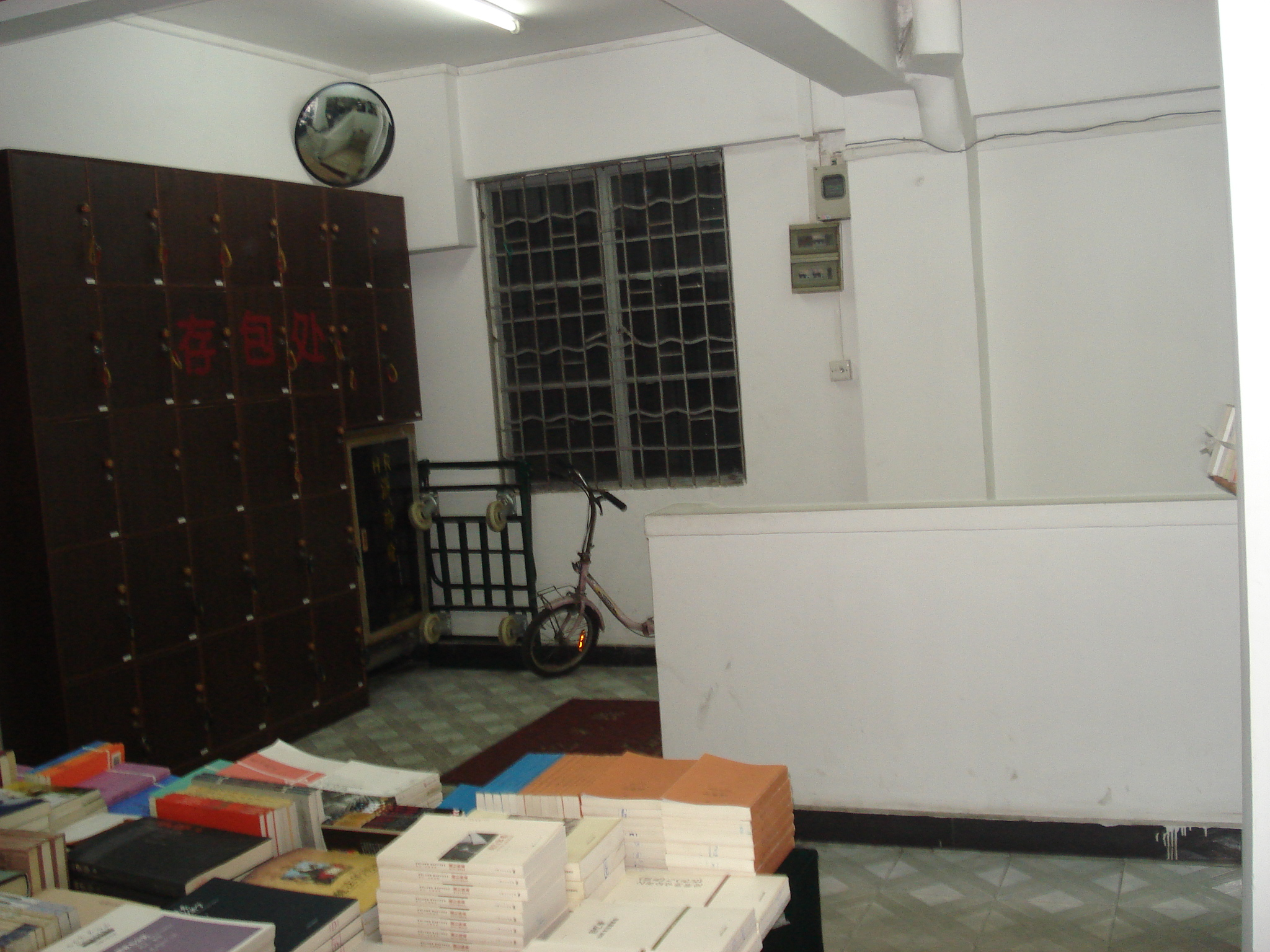 inside Wenjinge Store in Guangzhou, China